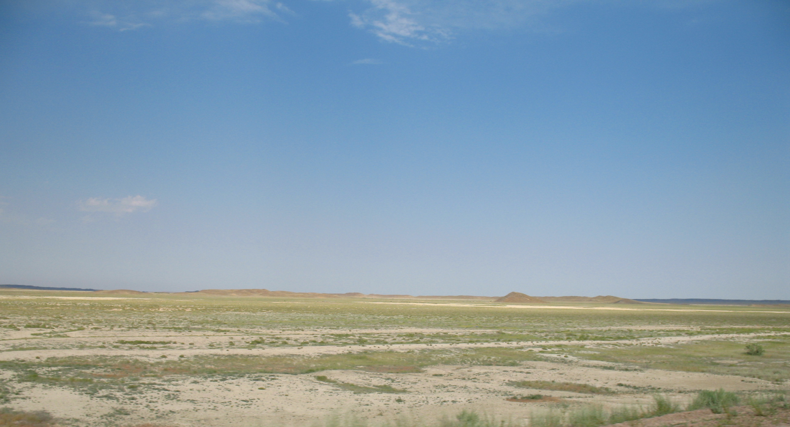 Betpack-Dala desert, near balkhash lake, Kazakhstan